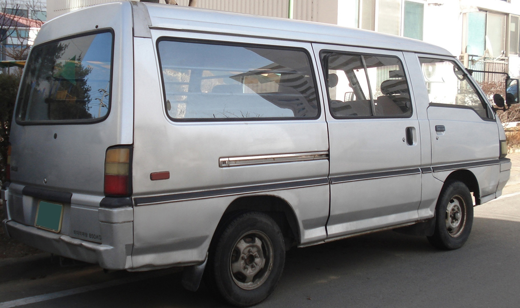 Hyundai Grace